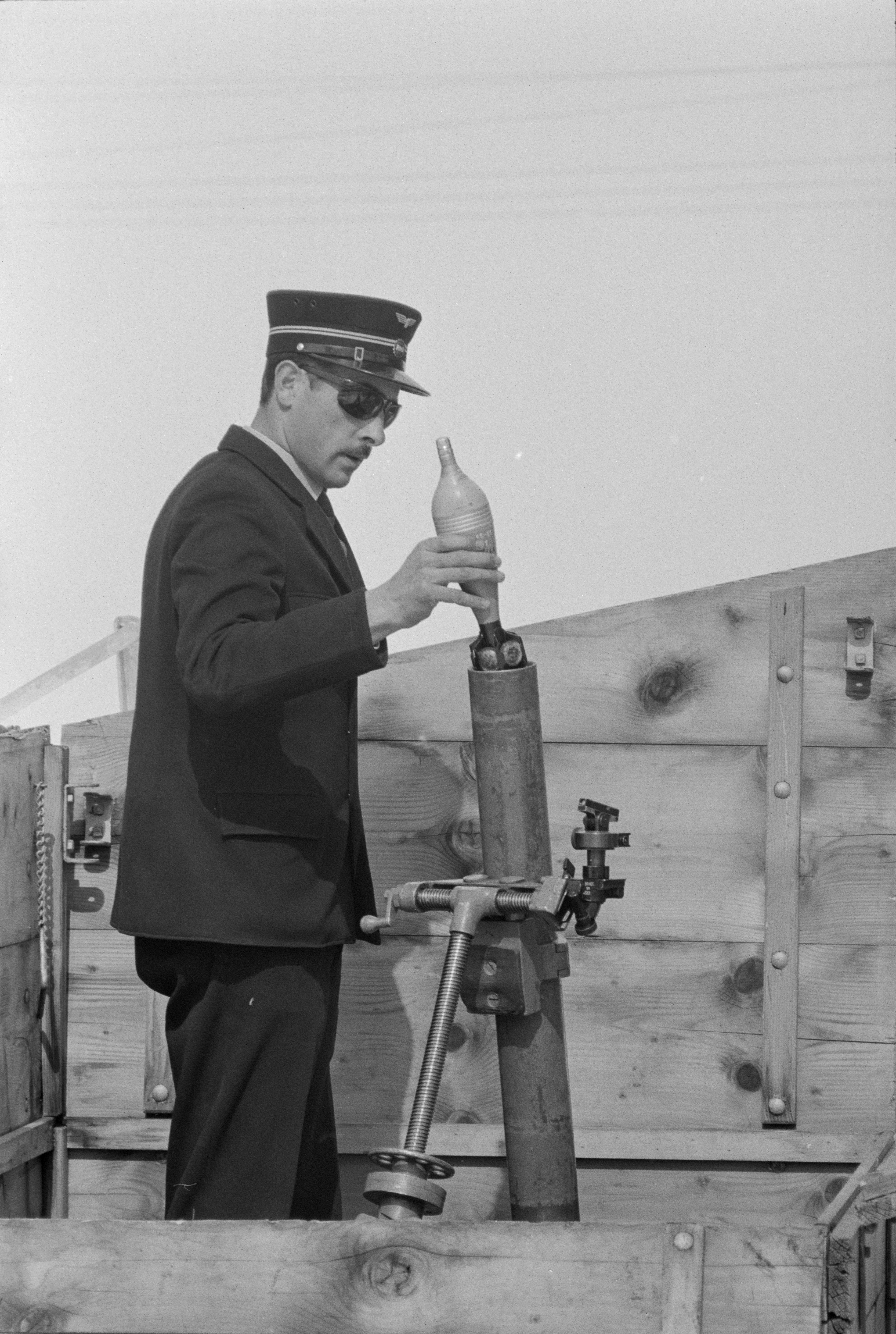 Avalanche control using explosives at the Bernina railway, 1967